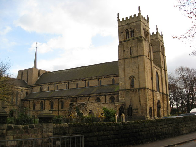 Worksop Priory